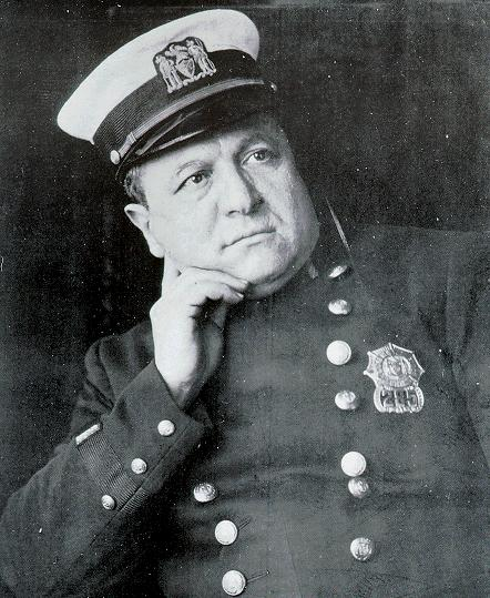 Photo of Lieutenant Joe Petrosino, NYCPD.